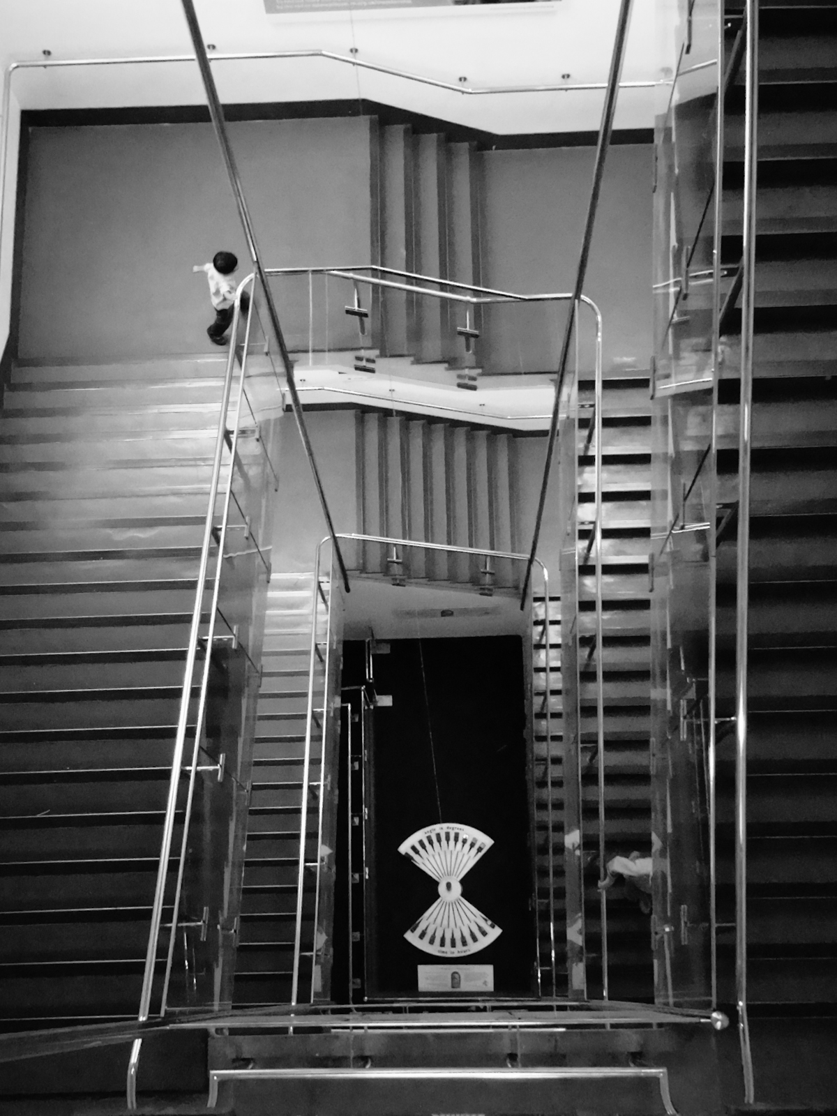 This photo was taken at Science Museum, London. Fucault pendulum.